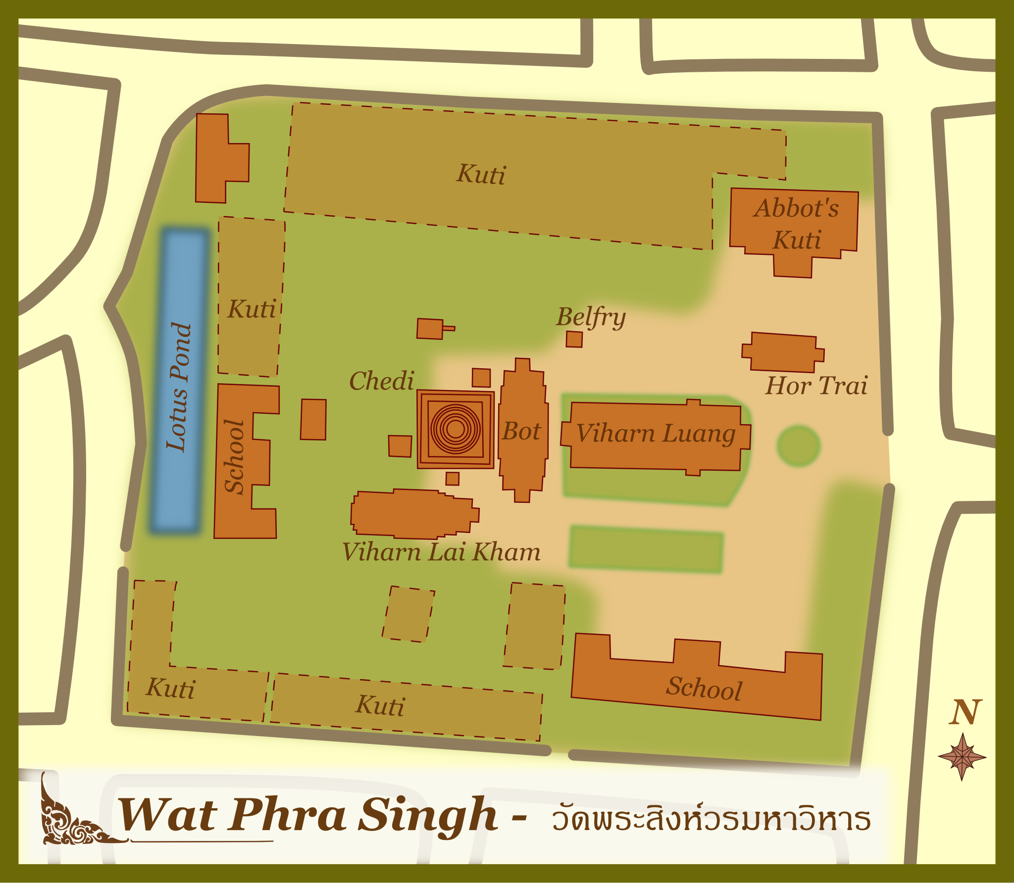 plan of Wat Phra Singh (temple complex), Chiang Mai, northern Thailand